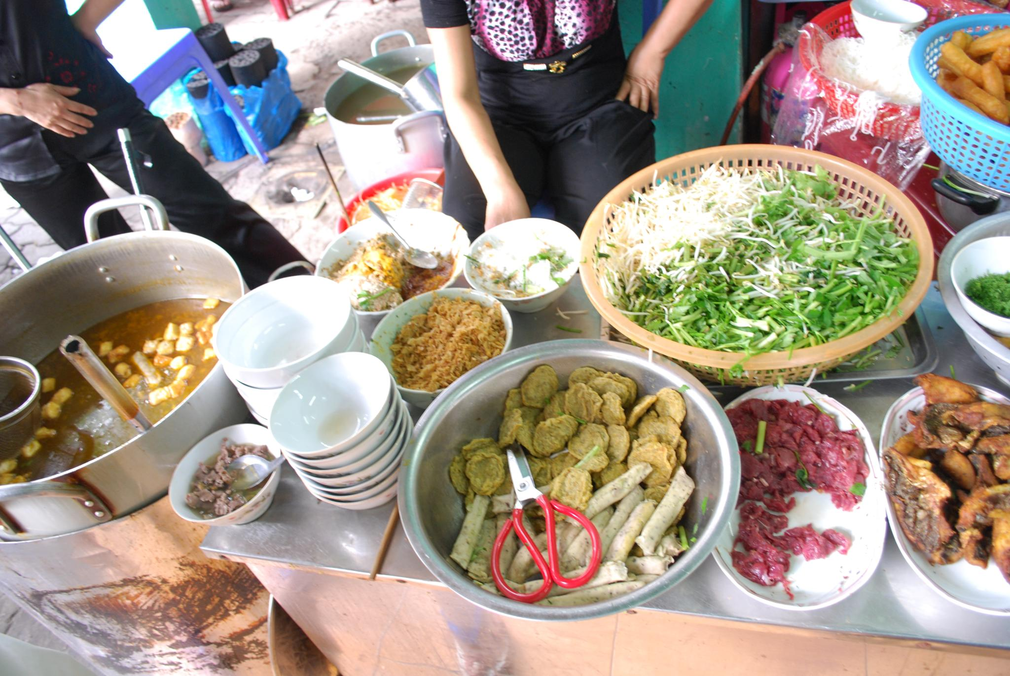 Bun Rieu Cua soup, crab roe pate, fried shallots, fish cakes, pork, pork sausages, beansprouts, water spinach - Ly Quoc Su. Absolutely the best tasting dish I've had in Vietnam! The rich crab broth is liberally flavoured with fried shallots and topped with a generous scoop of crab roe pate which looks like a mixture of crab roe and residue from the ground up crabs. Because of the fried shallots and the shellfish, it bears striking similarities to the 虾面 Hae Mee prawn noodles of Malaysia. Apart from the soup, the toppings included puffy fish cakes, a boiled pork sausage a bit like boudin blanc or weisswurst, but studded with sliced pig ears, beansprouts and water spinach. With much gesturing and repeating "mot soup, mot no soup" ("mot" is 1 in Vietnamese), the lady eventually said, "mot nuoc, mot kho". I nodded my head wildly agreeing, since i knew "nuoc" meant water or liquid, and from the beef jerky stalls with Bo Kho signs, I presumed "kho" meant dry! (The probably mean "bowl") As my reward, I was presented with a bowl of bún riêu cua kho with a sprinkling of peanuts. The lady even showed me how to squeeze lime over it, and add as much chilli shrimp paste as I liked. The dry version was also moistened with some crab broth, but with so little liquid, the crab paste made the sauce really intense. Amazingly good! It was no wonder that the food was as good as it was. You could tell by how packed the place was at lunchtime, and the fact that there was a huge pot of crab soup simmering away, which is a good indication of the volume of diners! Specialty Cakes skin at 59A Phung Hung, phone: 04. 9286519 or 0915 323 362 service to take place from 07h to 21h. You will enjoy the different feeling when eating crab cakes have here. - Google Translate Bún Riêu Cua - wikipedia